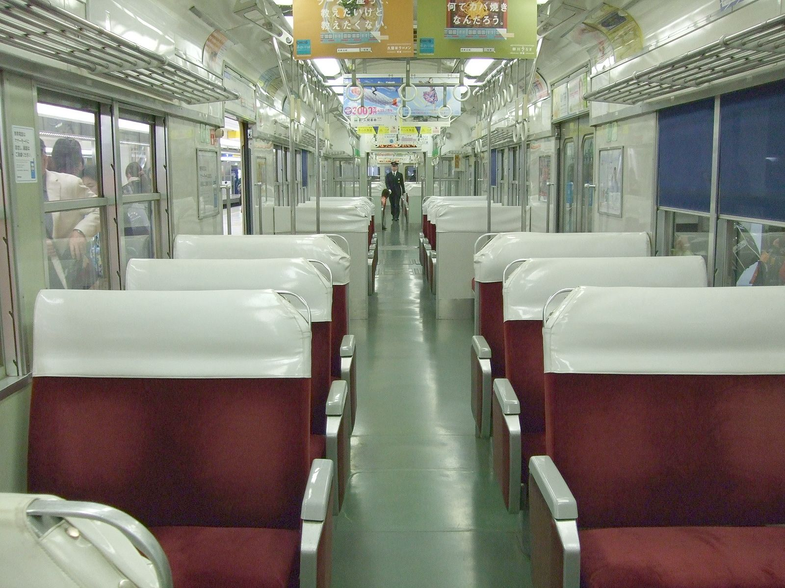 Nishi Nippon Railroad EMU Type2000 interior